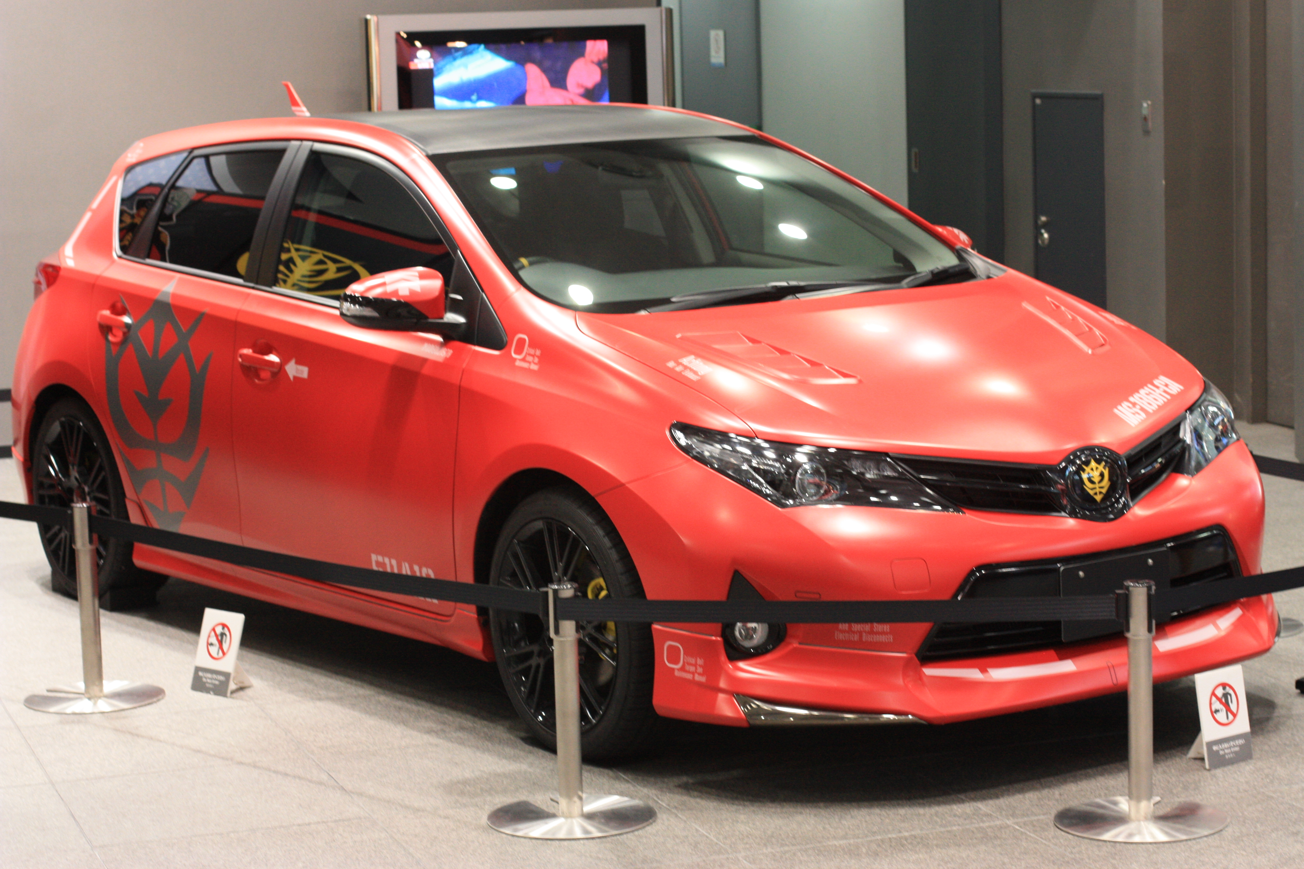 Toyota Auris customized Char Aznable at Toyota showroom in Ikebukuro